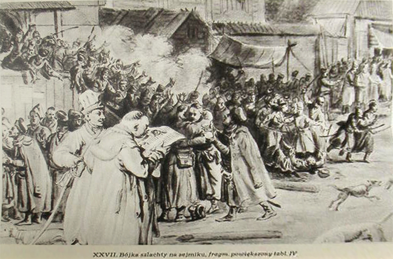 Jan Piotr Norblin, a French-Polish painter, 1740-1830. Etching entitled "The fight of szlachta at a Sejmik"